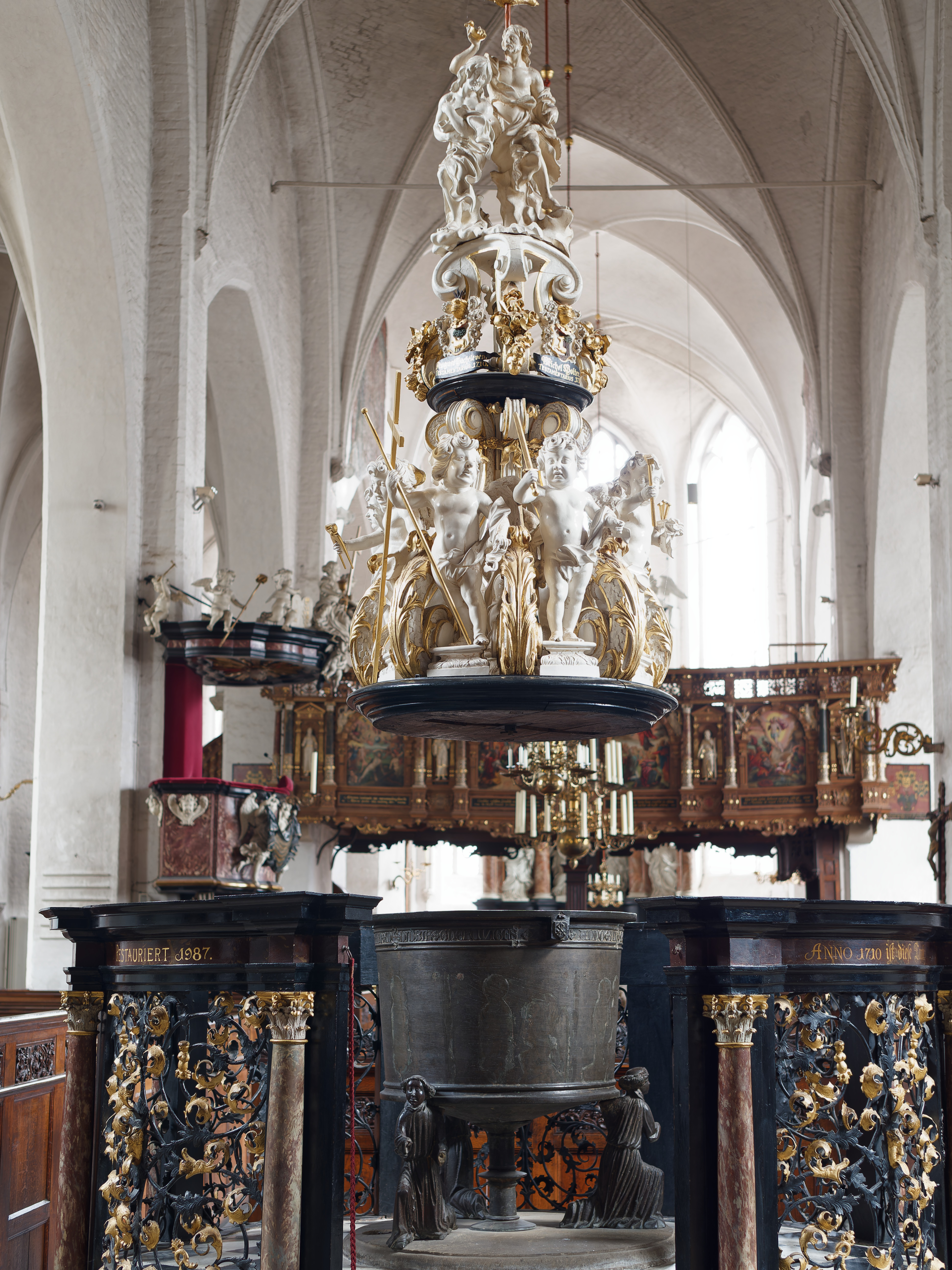 St. Aegidien at Luebeck, Germany, the baptismal font